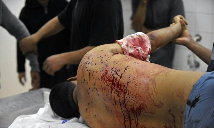 Fadhel Al-Matrook body at Salmaniya morgue